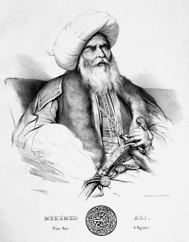 Muhammad Ali of Egypt drawn by Louis Dupré. Lithograph by Dupré in 1830 c. Frontpiece of the edition: L’Égypte et la Nubie, by Édouard-Pierre-Marie de Cadalvène & Jules-Xavier Saguez de Breuvery, Paris, Arthus Bertrand, 1841.